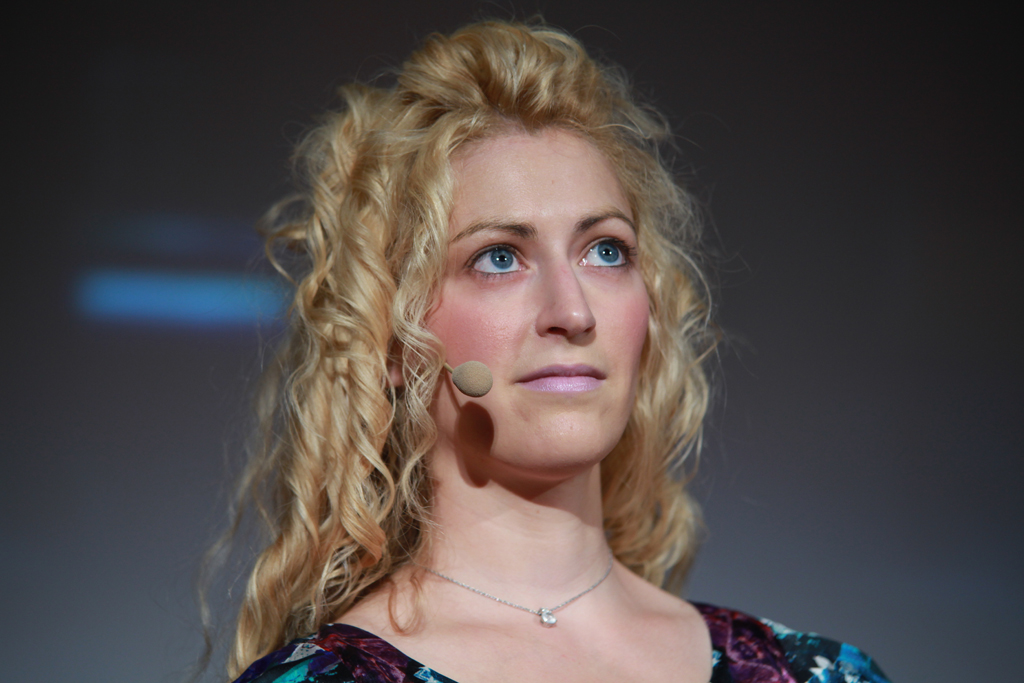 Game designer and author Jane McGonigal on stage at Meet the Media Guru in Milan, Italy, May 2011